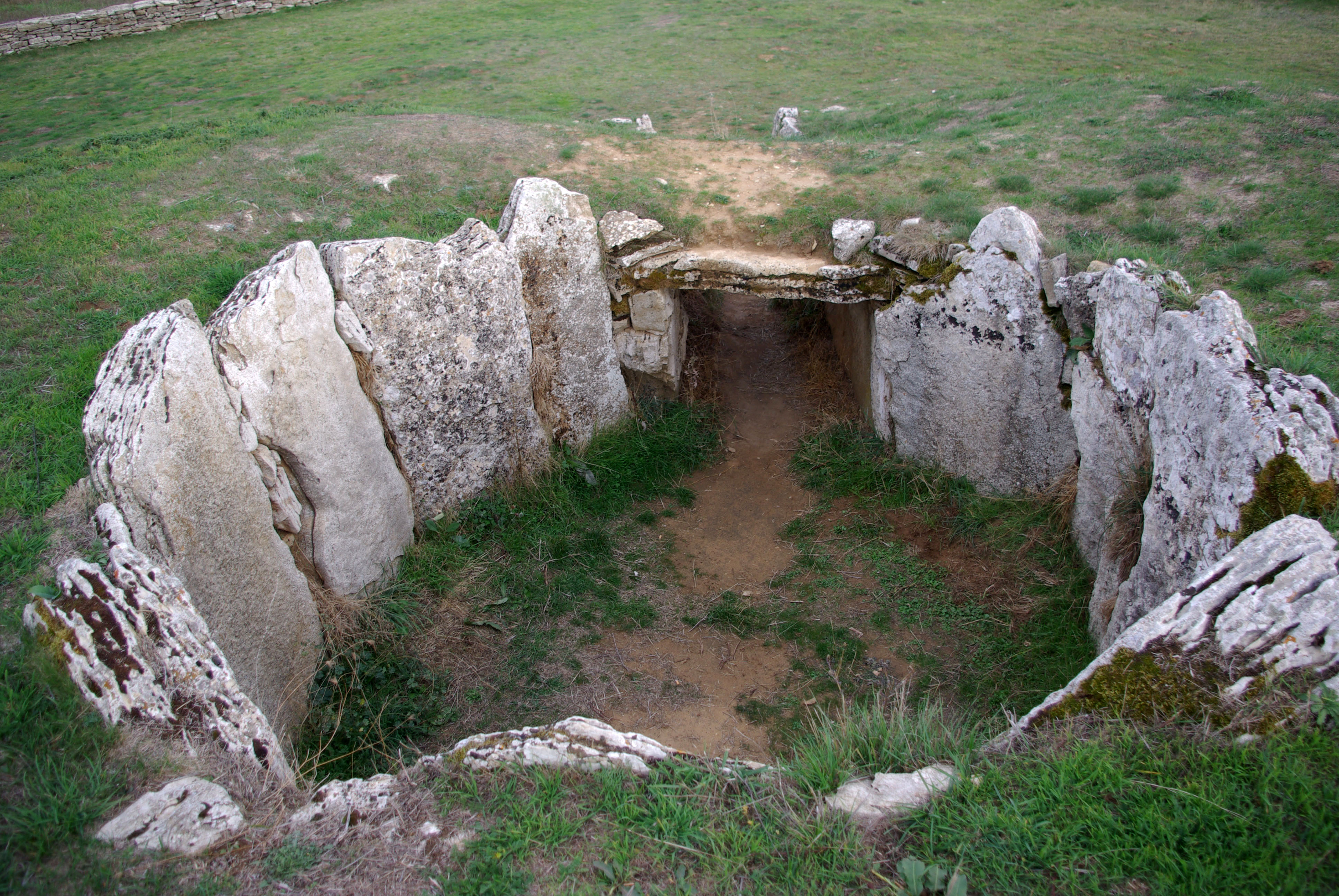 Dolmen of La Cabaña, near Sargentes de la Lora, Burgos, (Spain)